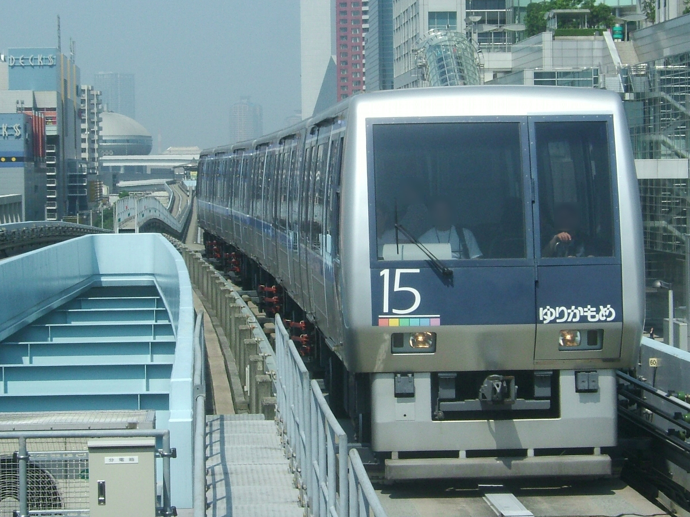 New transit 'Yurikamome'